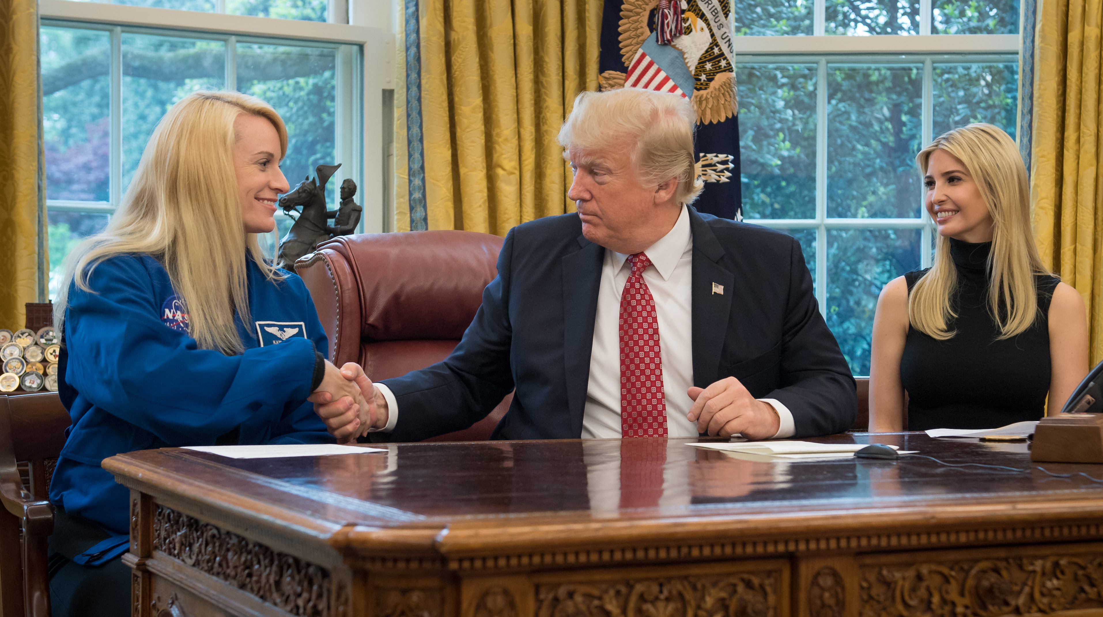 President Donald Trump shakes hands with NASA astronaut Kate Rubins, as First Daughter Ivanka Trump looks on, during a video conference where President Donald Trump talked with NASA astronauts Peggy Whitson and Jack Fischer onboard the International Space Station Monday, April 24, 2017 from the Oval Office of the White House in Washington. The President congratulated Whitson for breaking the record for cumulative time spent in space by a U.S. astronaut. The President and First Daughter also discussed with the three astronauts what it is like to live and work on the orbiting outpost as well as the importance of STEM.